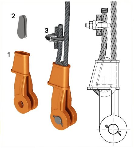 Wedge socket